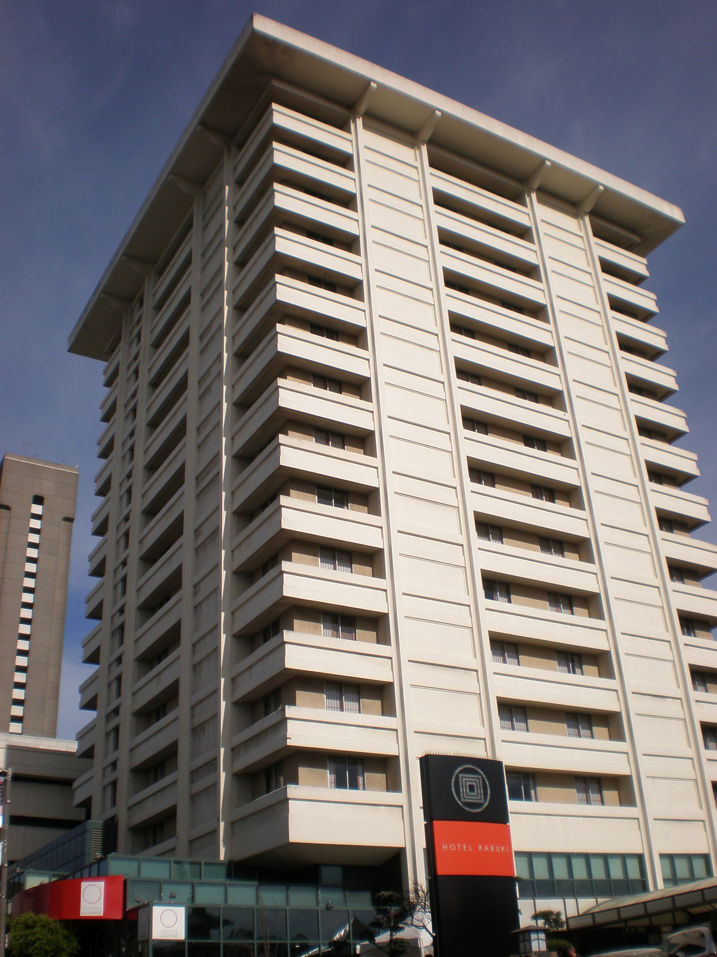 The Hotel Kabuki in Japantown, San Francisco.